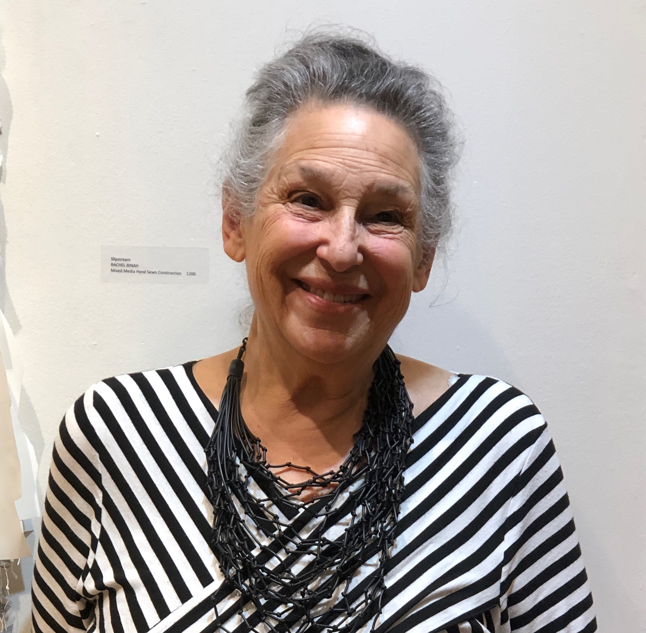 Rachel Binah at an art exhibition in Fort Bragg, California, in November 2019.